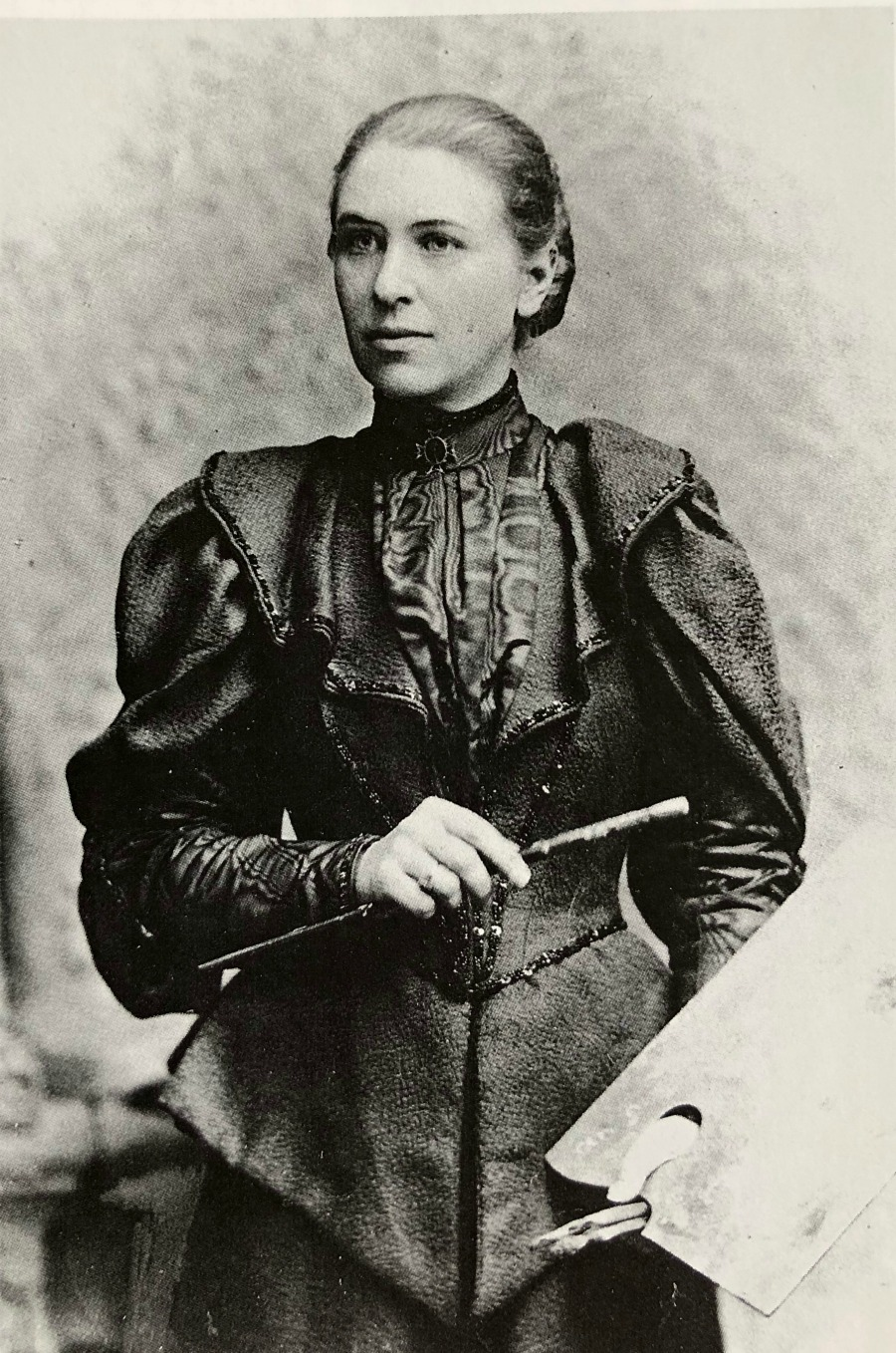 Mary Lowndes, stained glass designer, 1890